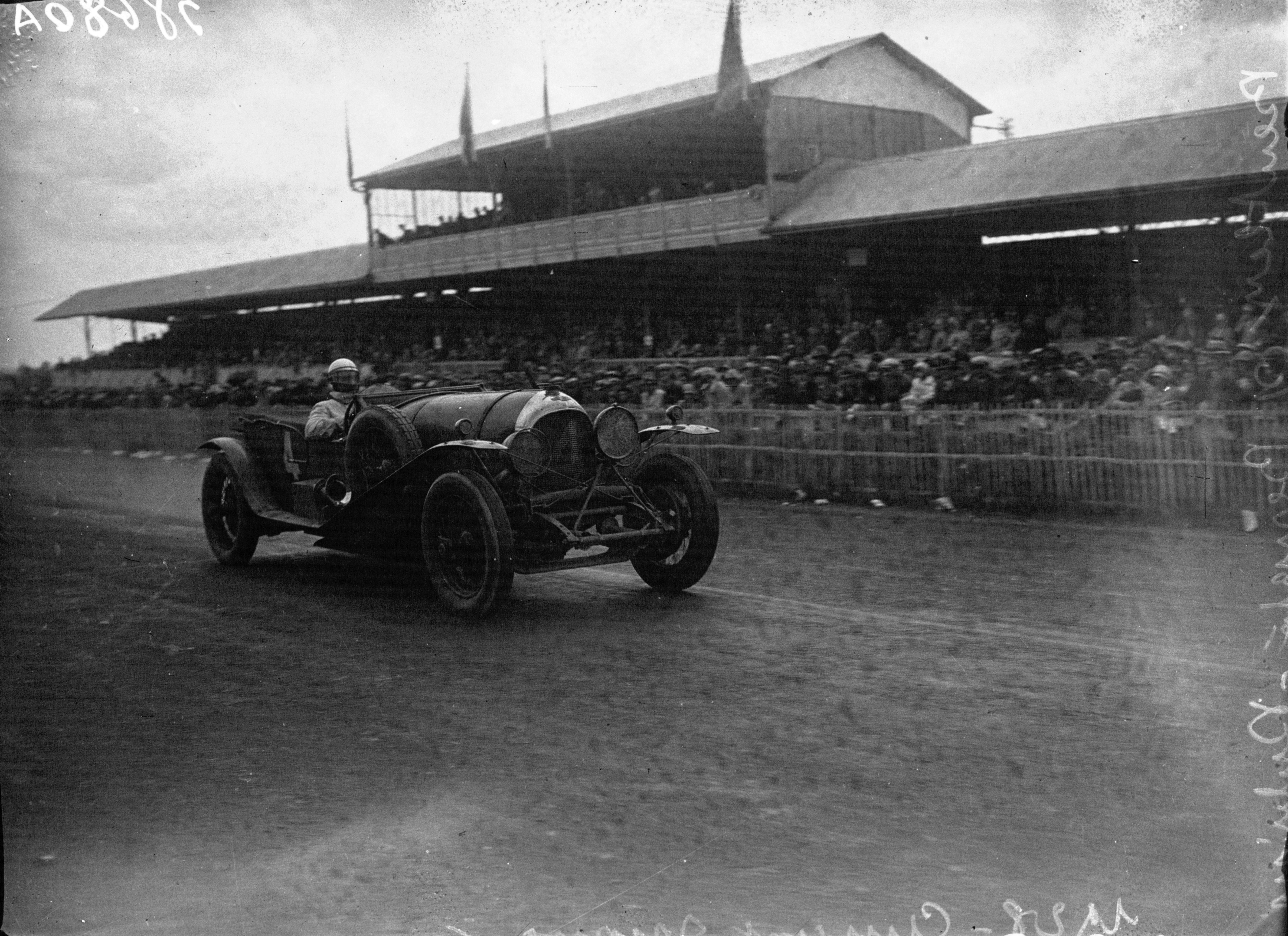 Bentley #4 of Barnato and Rubin at the 1928 24 Hours of Le Mans.